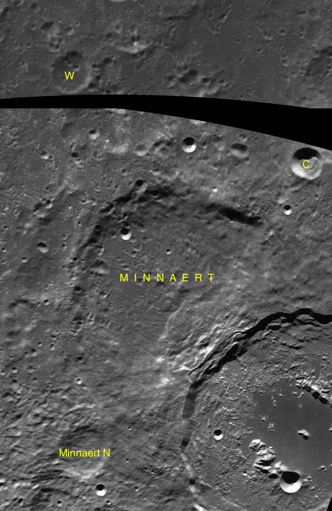 Parts of the charts LAC-132, LAC-141 used for the presentation